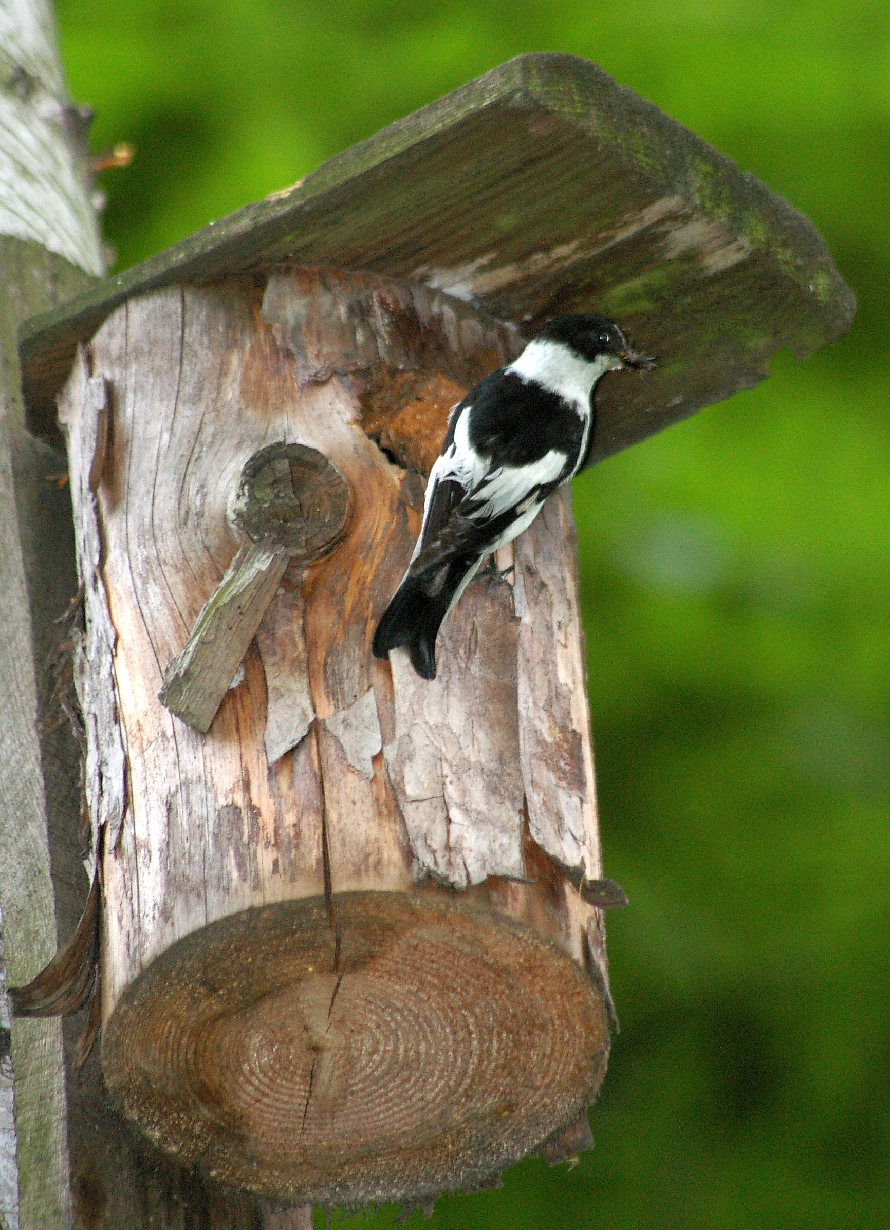 Collared Flycatcher sitting on a birdhouse